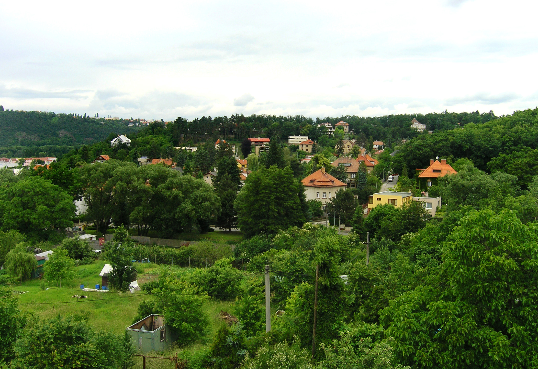 Hodkovičky, view from Modřany, Prague